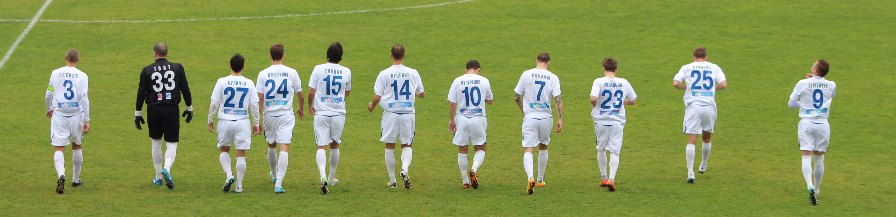 MFC Mykolaiv 2013/11/03